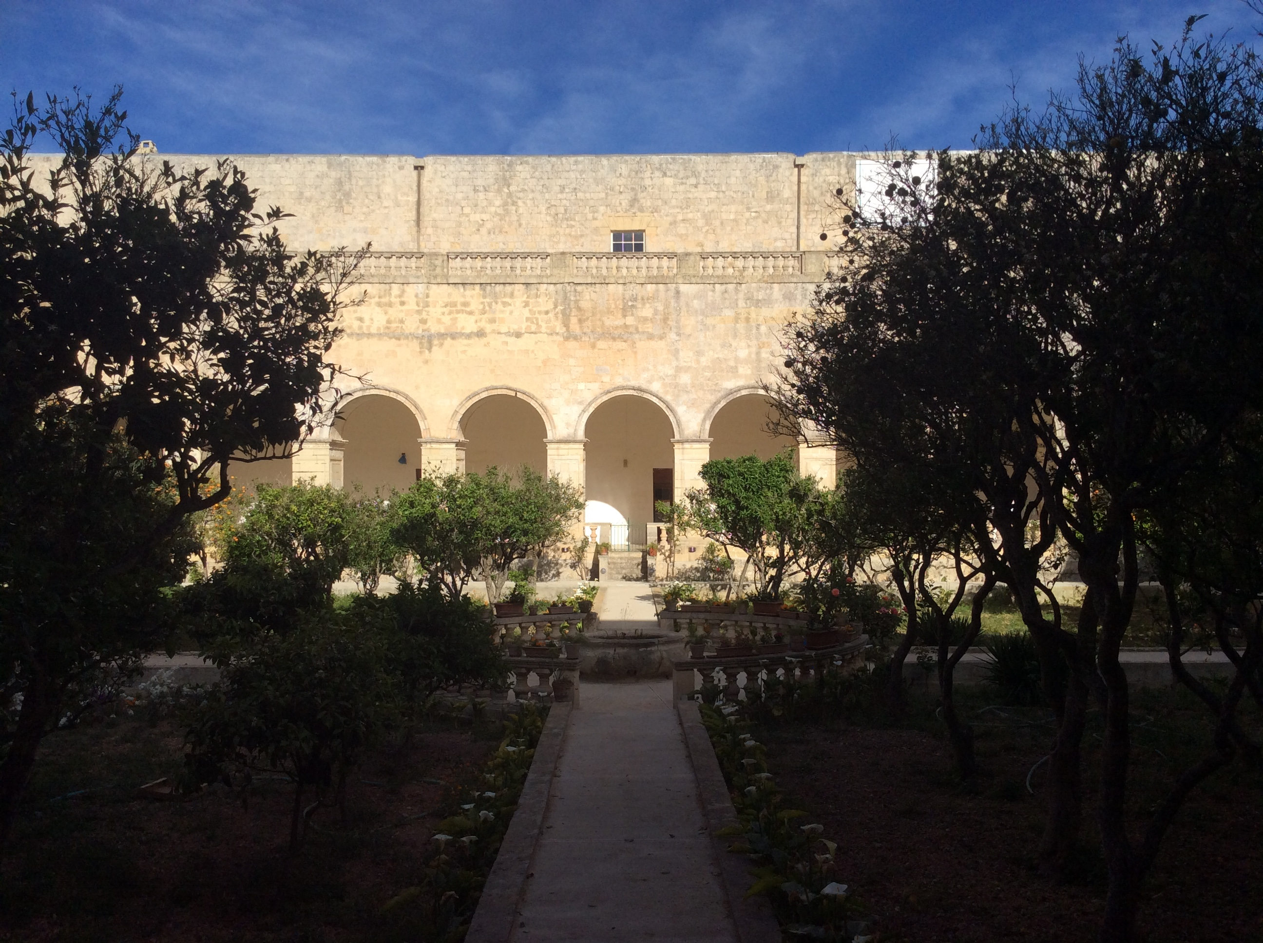 Rabat walk 2017